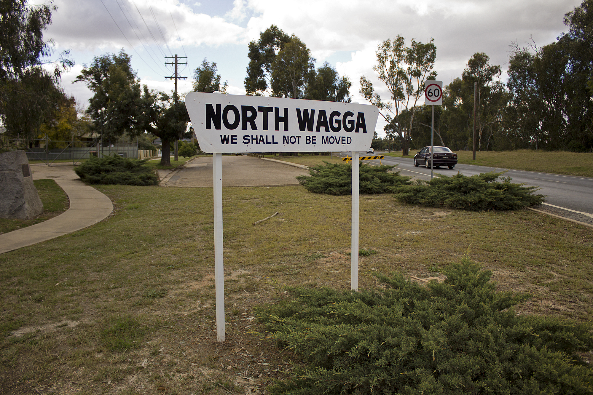 North Wagga sign with the "We Shall Not Be Moved" slogan, which replaced the other sign that was vandalised.